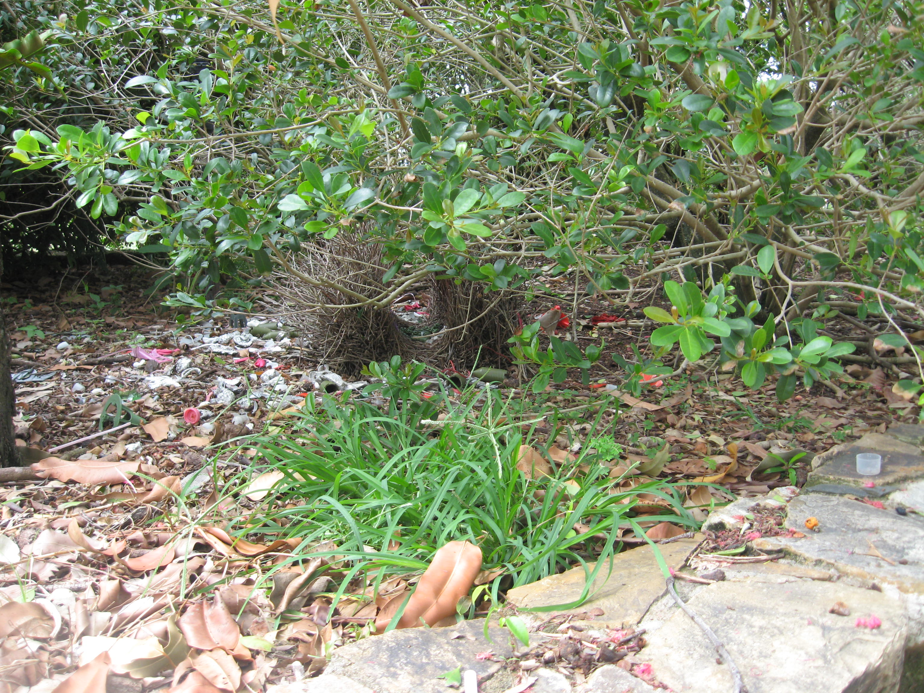 Feb 2010 A Great Bower Bird (Chlamydera nuchalis) bower (not a nest) beside No 10 Walkway. Feb 2010